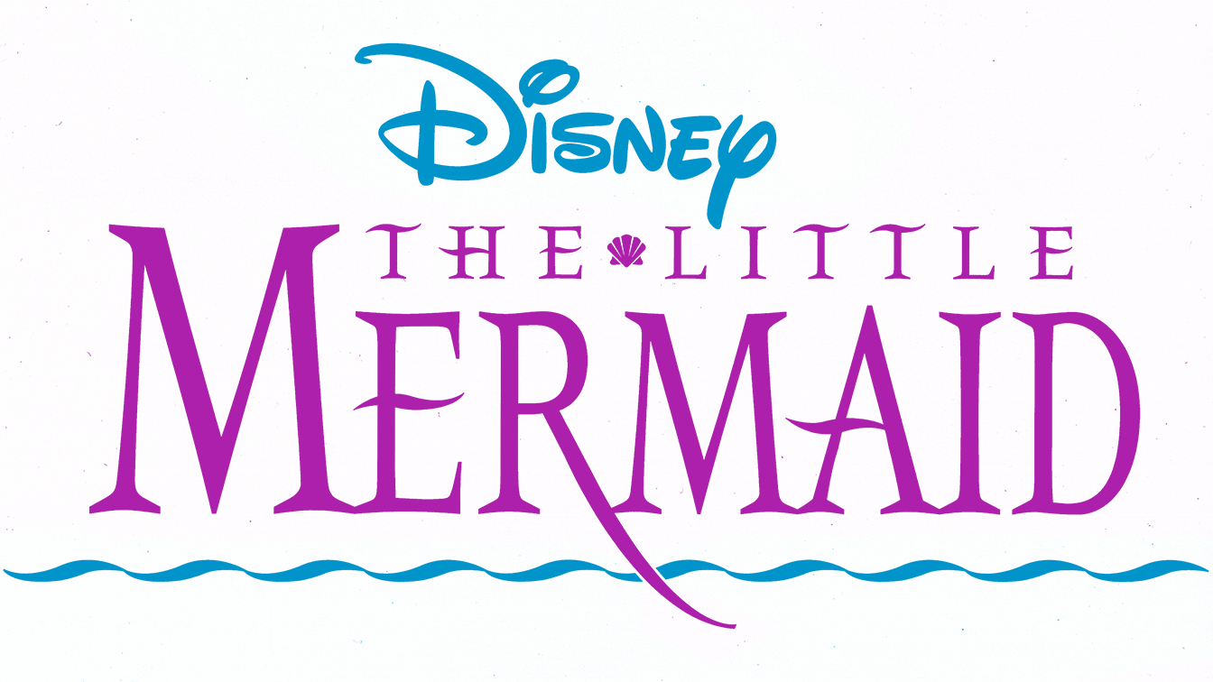 Official logo for The Little Mermaid (TV series).